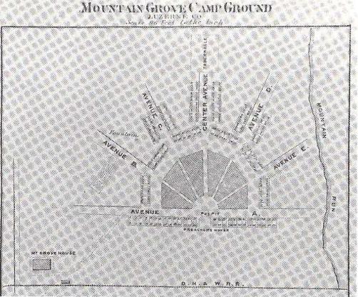 A map of Mountain Grove Campground. This originally appeared in an 1876 atlas of Columbia and Montour Counties, in Pennsylvania, United States.